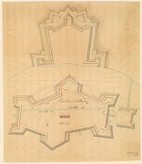 1722 year plan of the peter and paul fortress in sankt petersburg